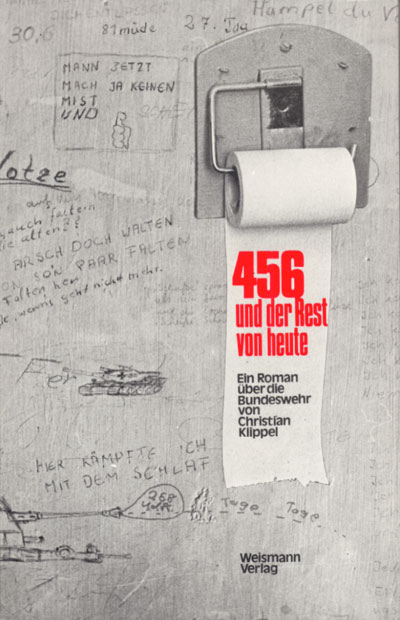 Original book cover of the 1979 German novel "456 und der Rest von heute." All rights reverted back to the author who gave his permission to upload it here.